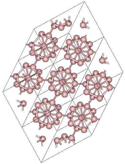 Crystal structure of alpha-boron Structural data from Journal = AIP CONFERENCE (AMERICAN INSTITUTE OF PHYSICS), PROCEEDINGS Year = 1986 Volume = 140 Page = 70-86 Title = RHOMBOHEDRAL CRYSTAL STRUCTURE OF COMPOUNDS CONTAINING BORON-RICH ICOSAHEDRA Authors = Morosin B., Mullendor A.W., Emin D., Slack G.A.